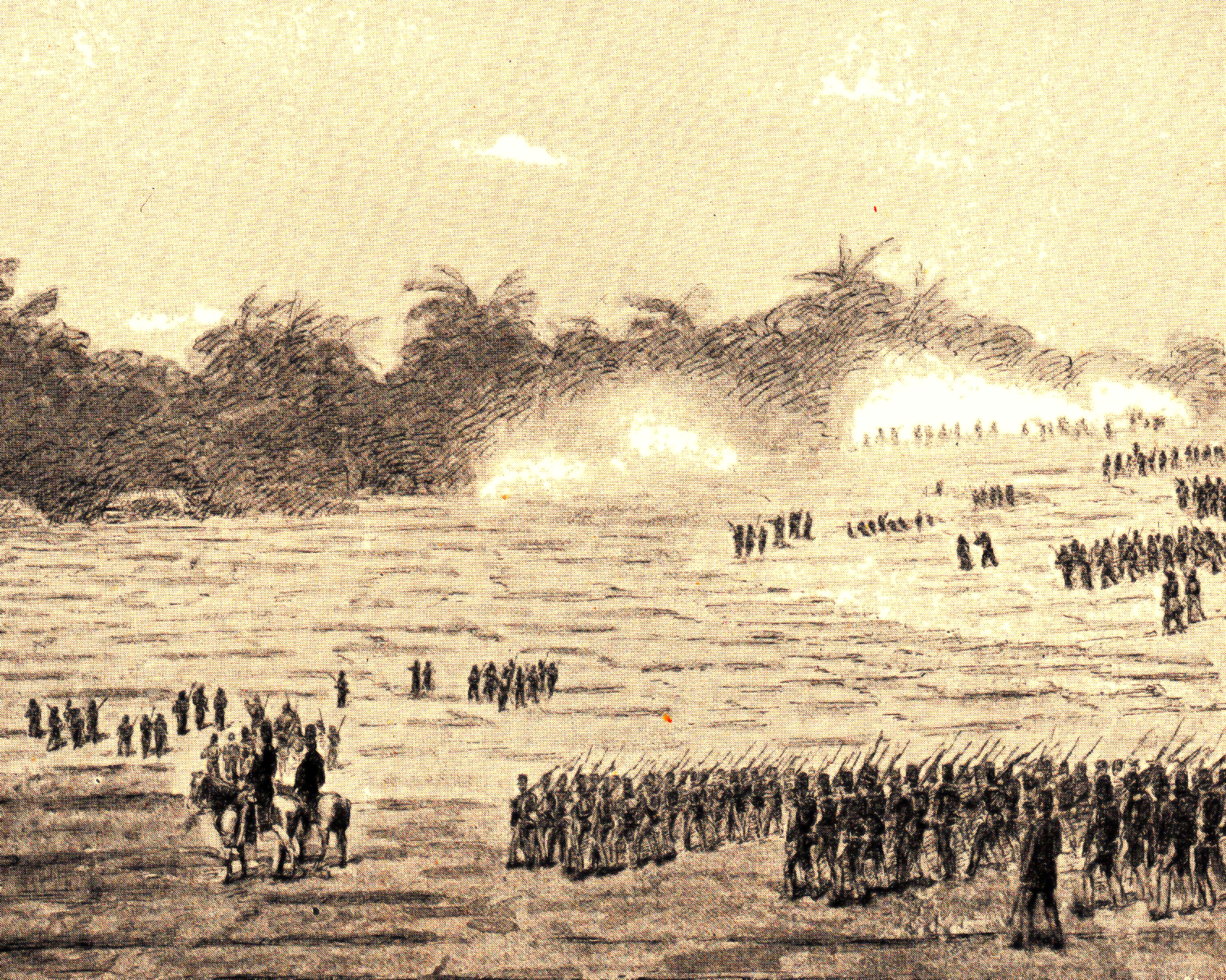 Aanval op kampong Boenkoelan